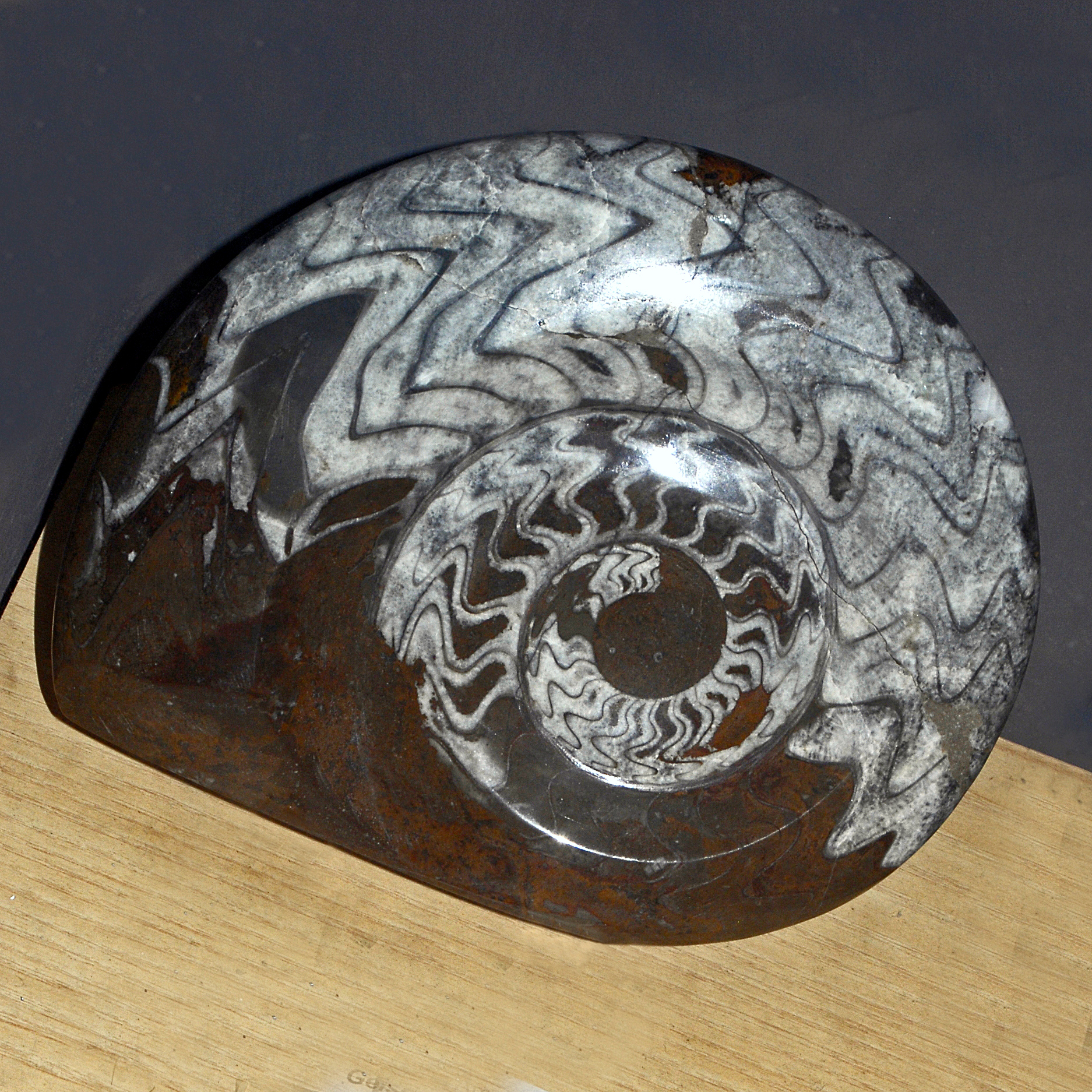 Fossil of Geisonoceras species, on display at Museo Paleontologico Lai, Cariale, Savona, Italy